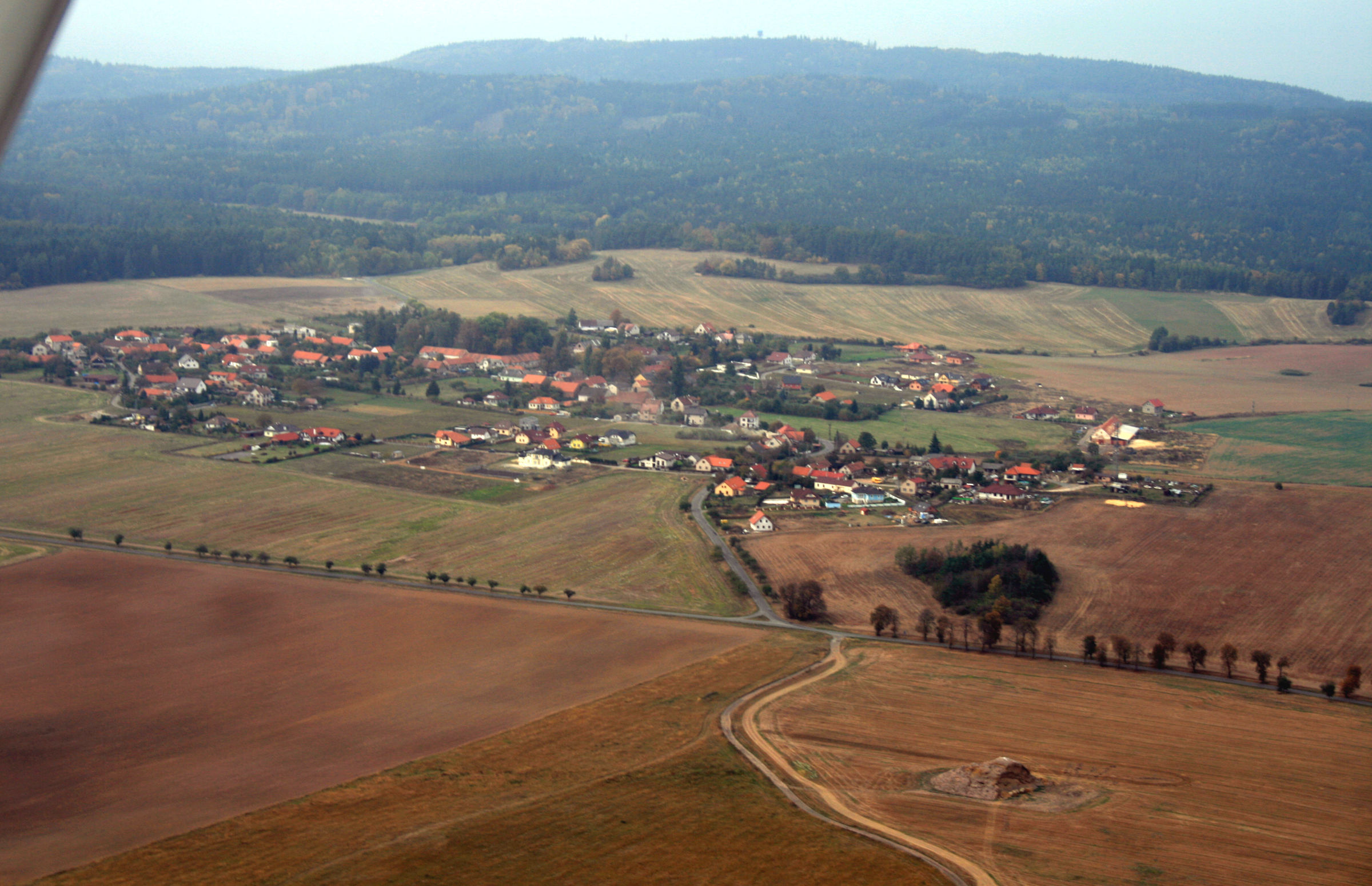 Air photo of Buková u Příbramě in central Bohemia, Czech Republic